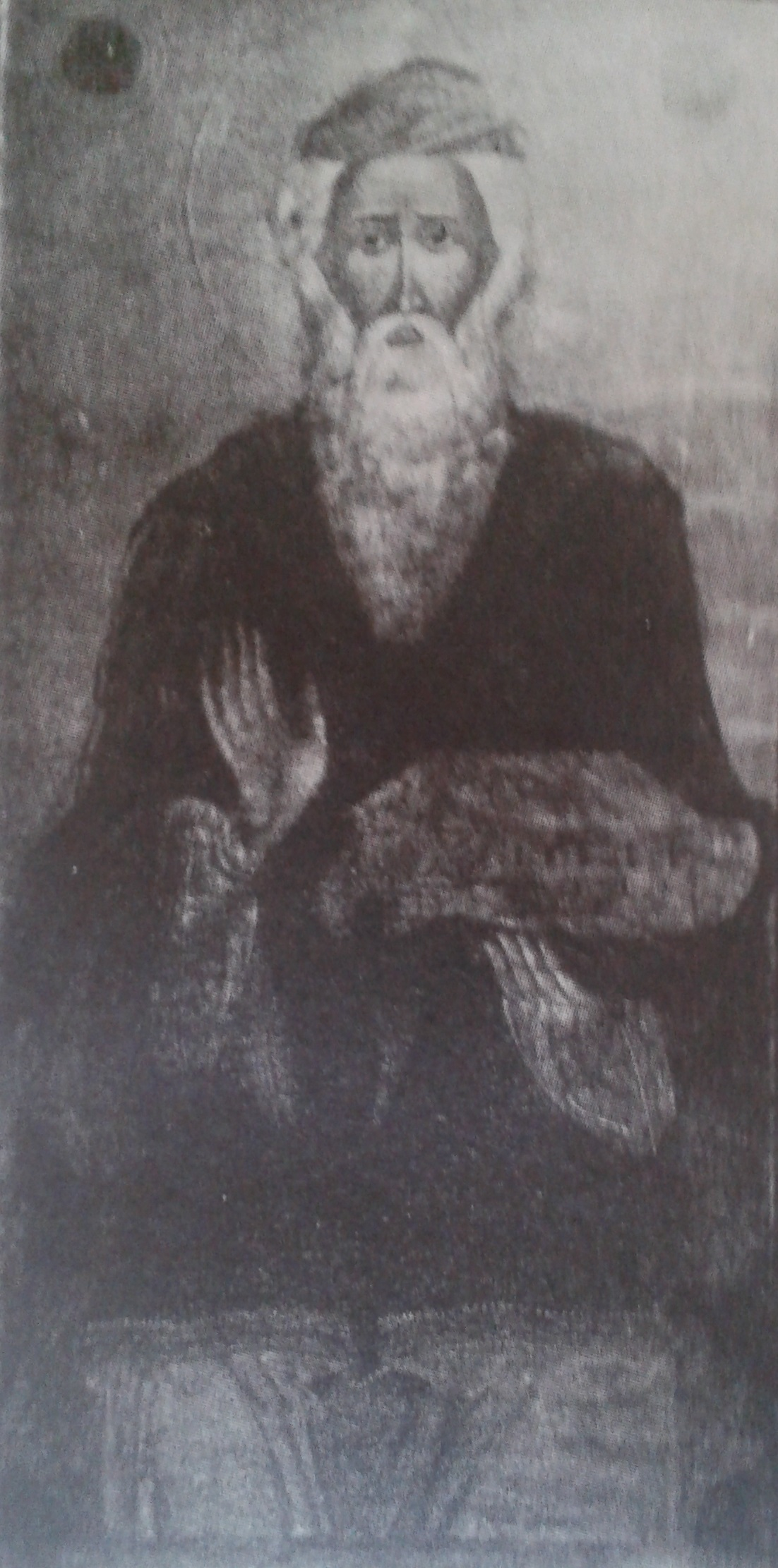 Noah by Georgi Velyanov